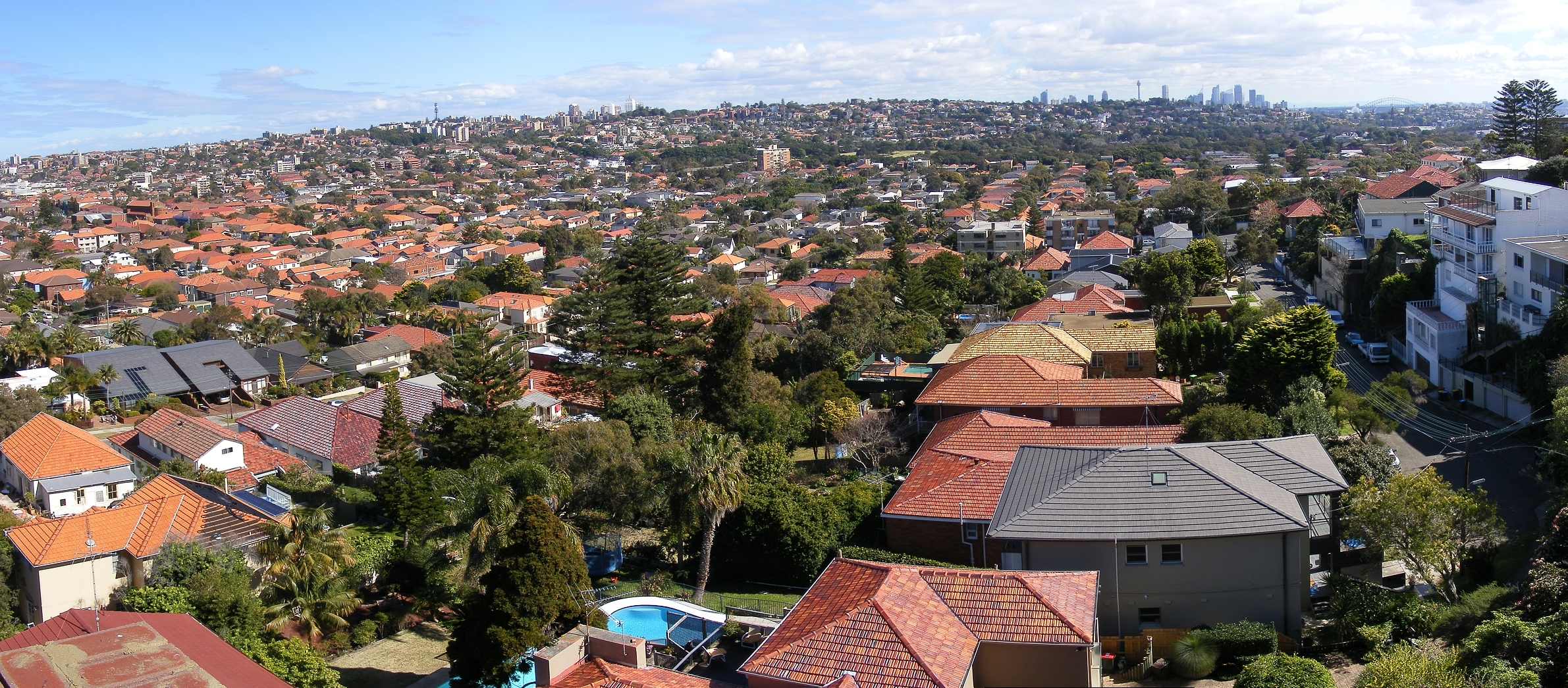 A panorama over the Eastern Suburbs of Sydney taken from my back veranda